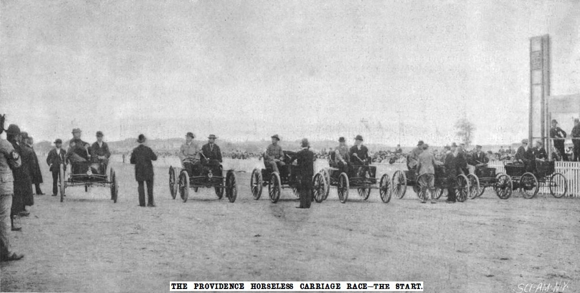 "The Providence Horseless Carriage Race - The Start". Photo of the auto race at Cranston, Rhode Island (Rhode Island State Fair) in September 1896.